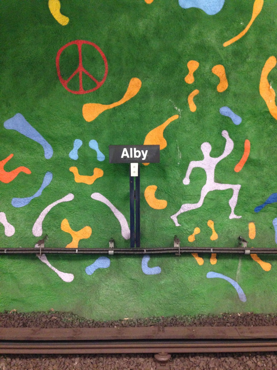 The subway station Alby in Stockholm, Sweden, 2013